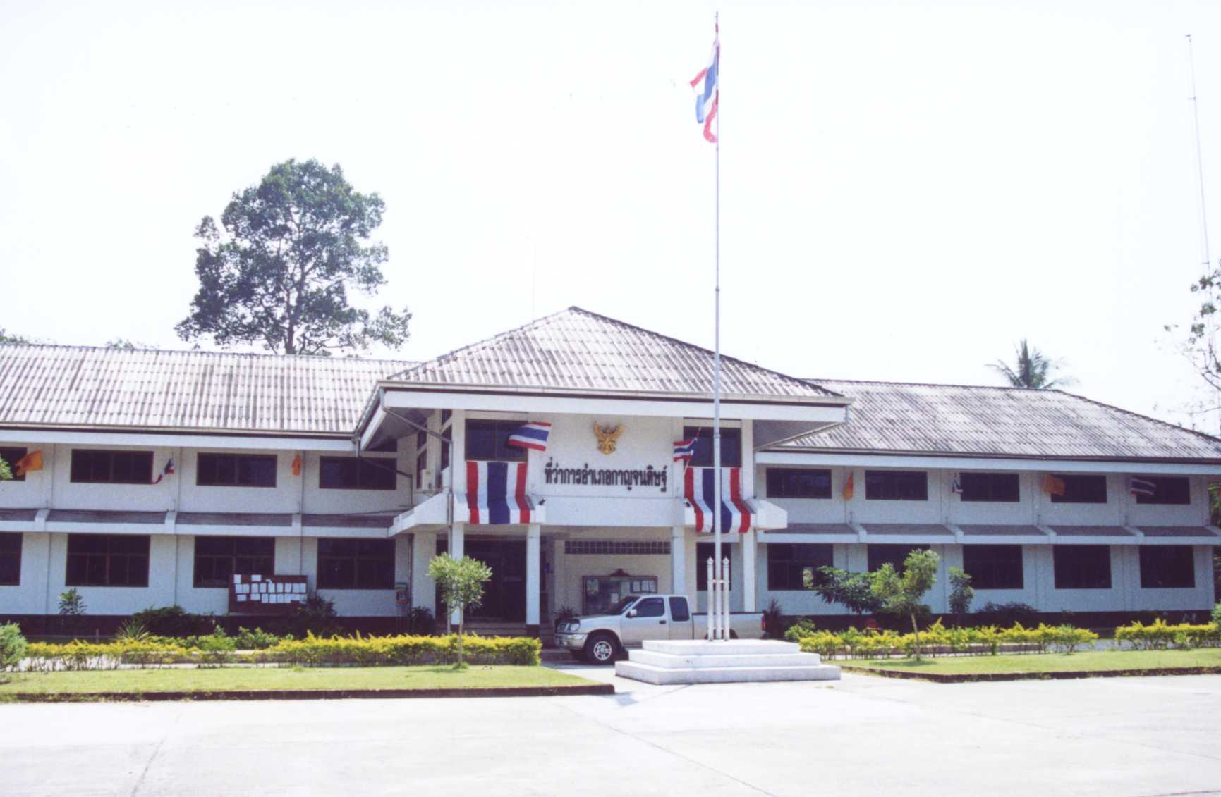 District office of Kanchanadit district, Surat Thani Province, Thailand. Photo taken by User:Ahoerstemeier taken on January 29 2006.